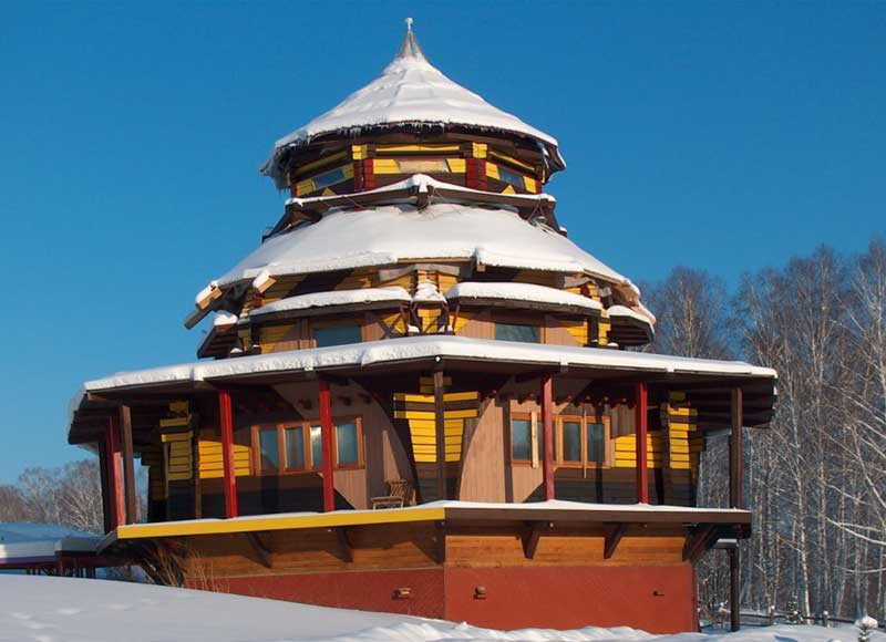 Tescao School in Novosibirsk, Siberia